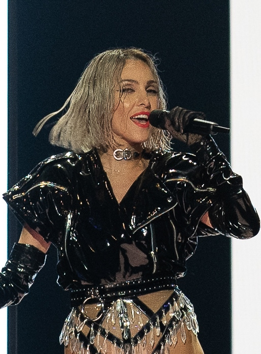 Tamta at the Eurovision Song Contest 2019 in Tel Aviv.